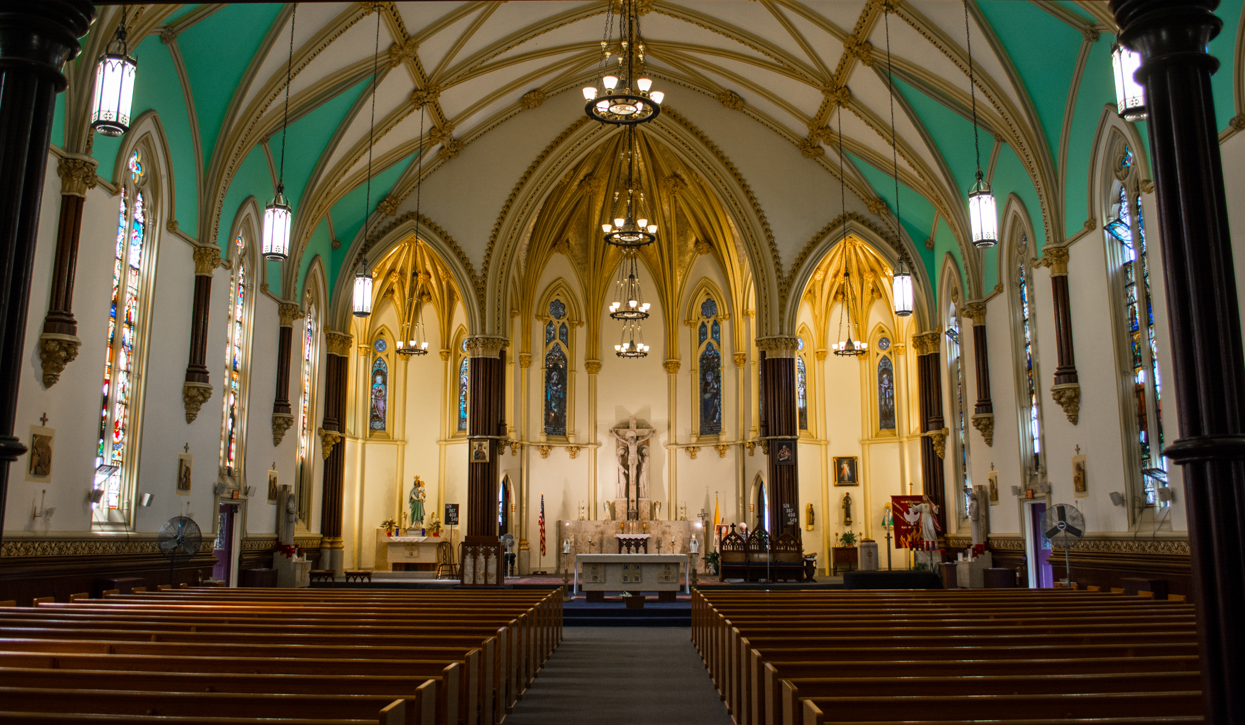 Nave and altar at Holy Name Catholic Church, located at 8328 Broadway Avenue in Cleveland, Ohio, in the United States. Founded as Holy Rosary Church in 1862, the congregation changed its name to Holy Rosary when this structure was completed in 1881.